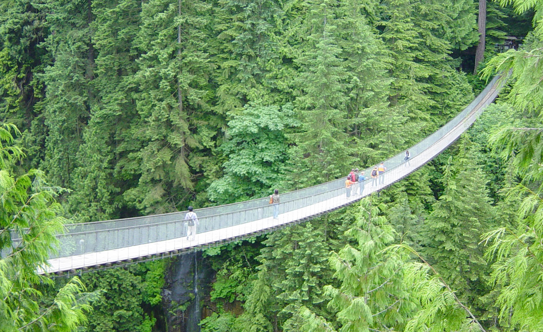 Capilano Bridge, North Vancouver, British Columbia. Bridge is 140 meters (450 feet) long and is 70 meters above the Capilano River. Located in a private nature preserve open to the public (for fee) it is the fifth bridge at this location and is used to access a rainforest canopy walk and other nature trails.